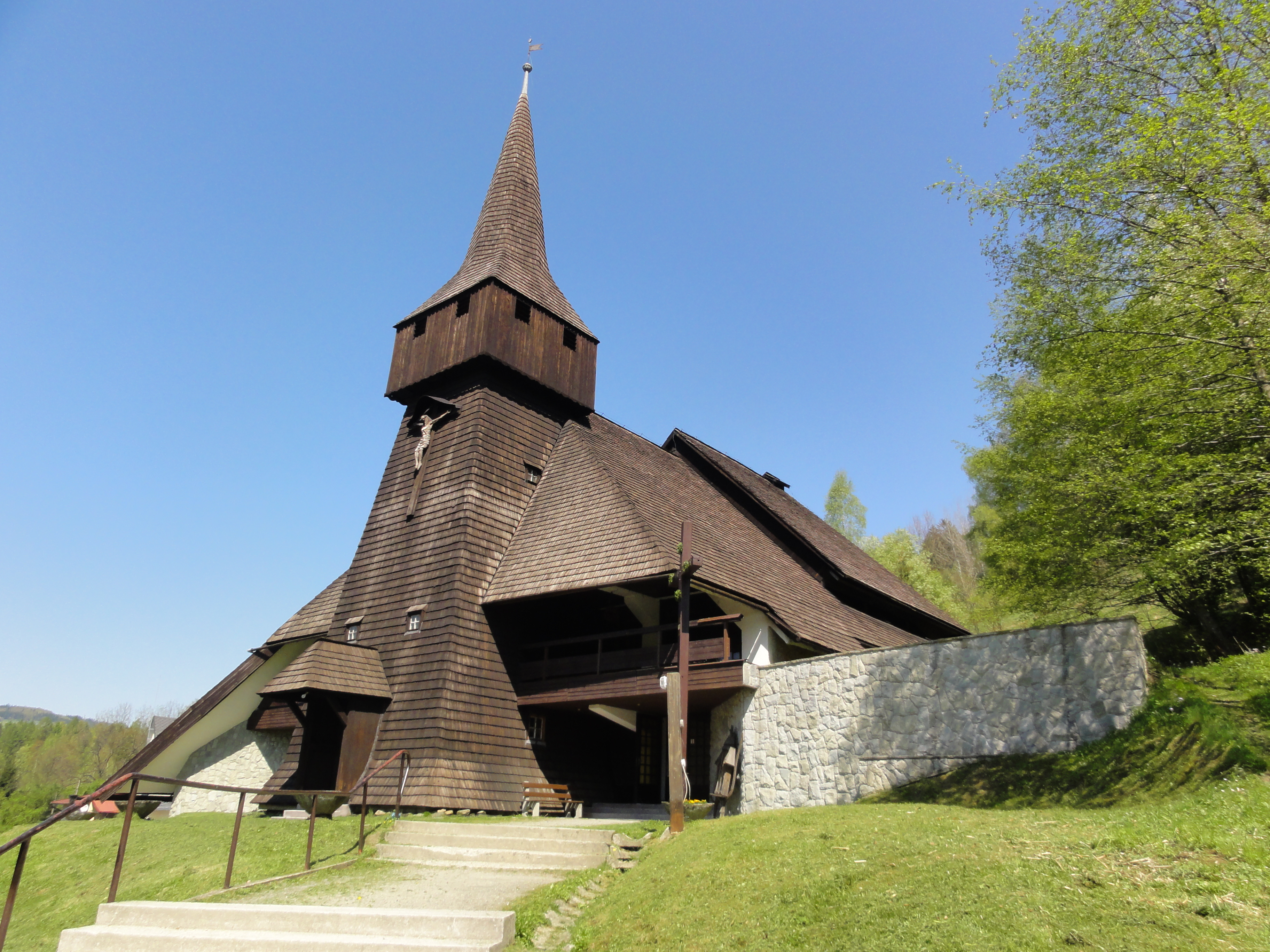 Church of Finding of the Holy Cross in Wisla-Labajów